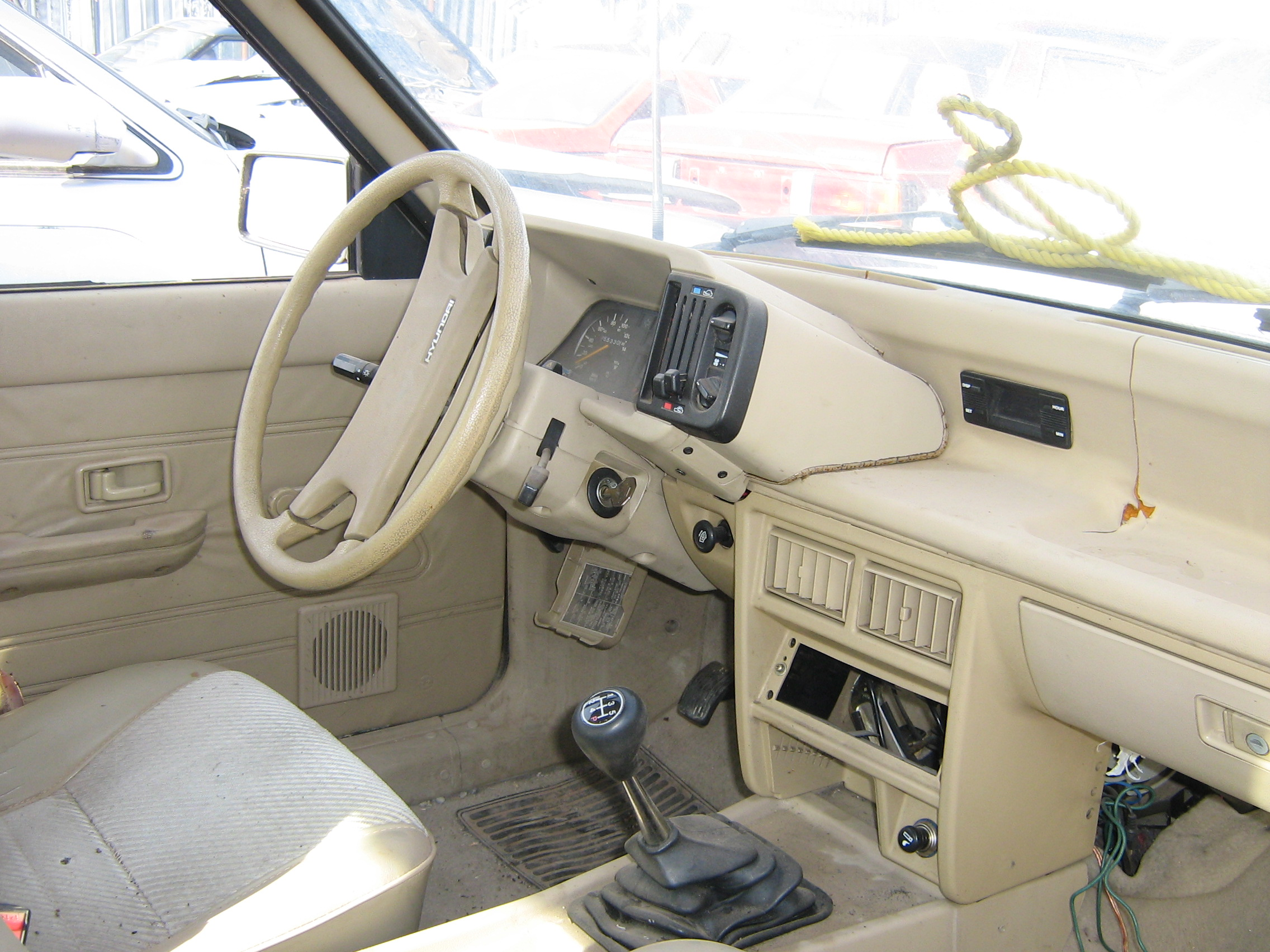 Hyundai Pony - 5spd too with the bigger 1.6L engine.